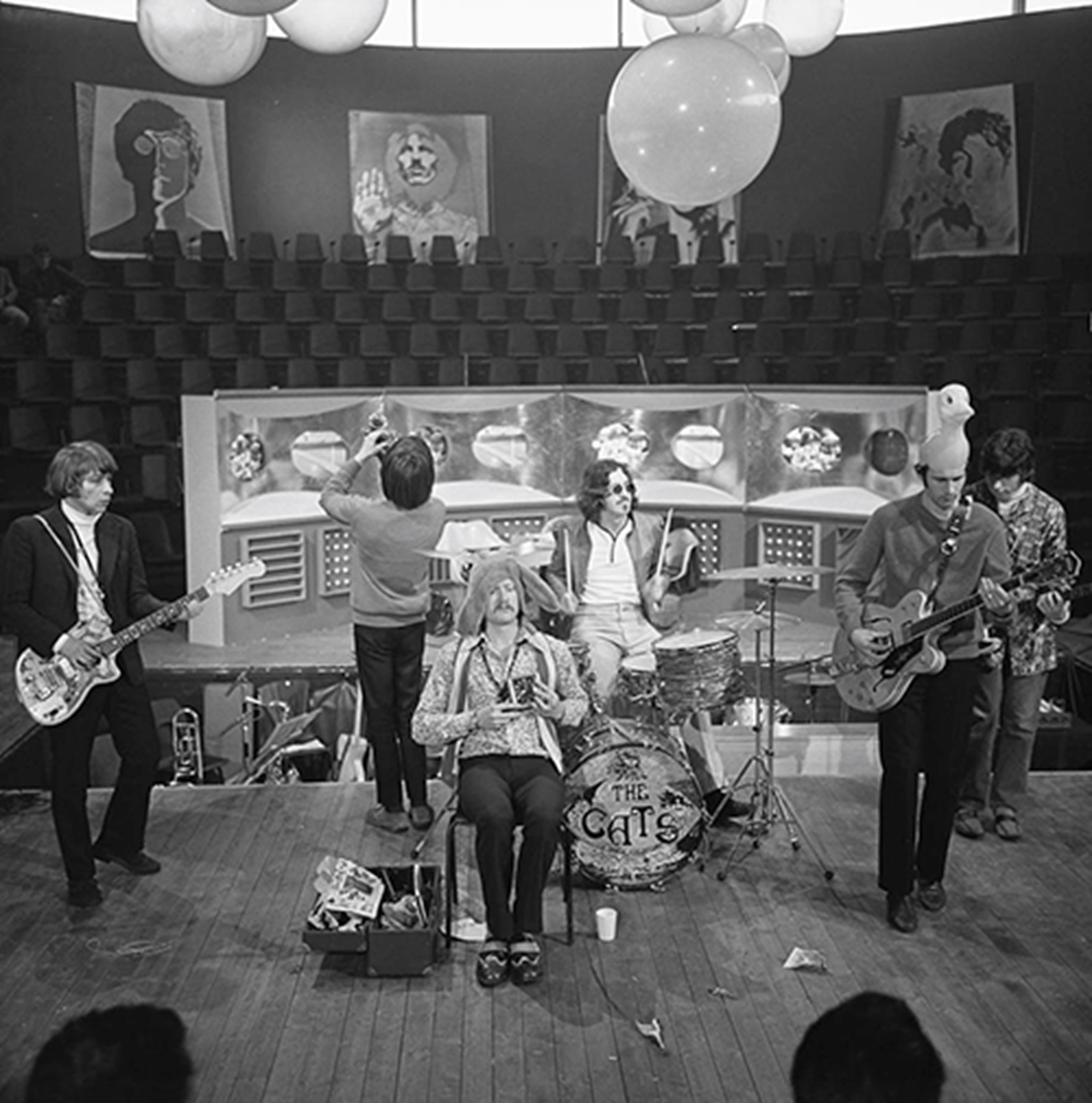 Bonzo Dog Doo-Dah Band in Fenklup (Dutch TV), 7 June 1968. The drumkit is from the Dutch pop group The Cats, performing in Fenklup on the same day. Left to right: Rodney Slater (guitar), Roger Ruskin Spear (sax), Vivian Stanshall, Larry Smith (drums), Neil Innes (guitar), XX (probably Dennis Cowan or Dave Clague, bass).